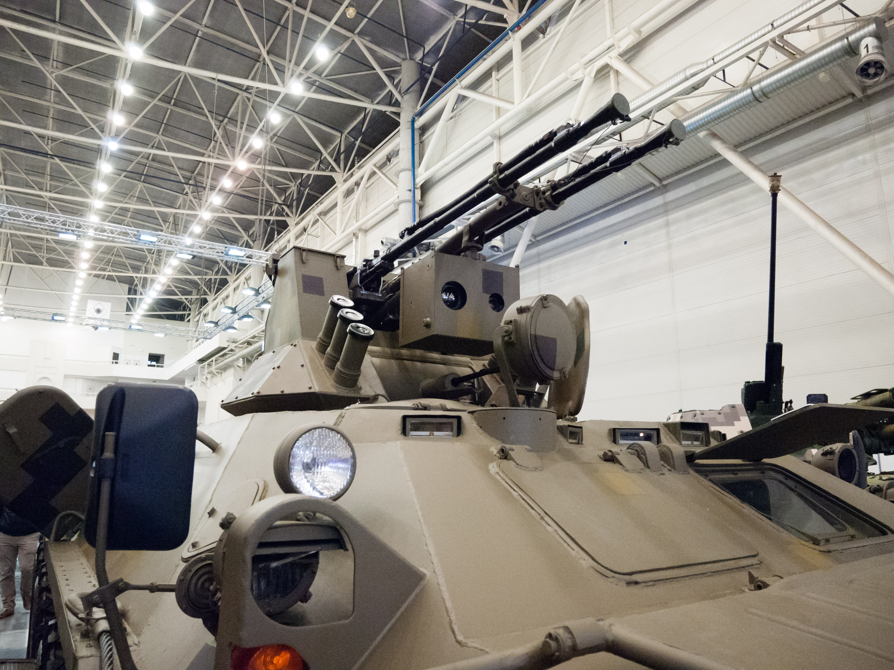 BAU 23-2 fighting module with TIMP-71 scope (Ukraine)